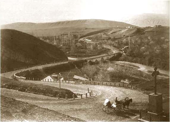 Cross on the Vera district